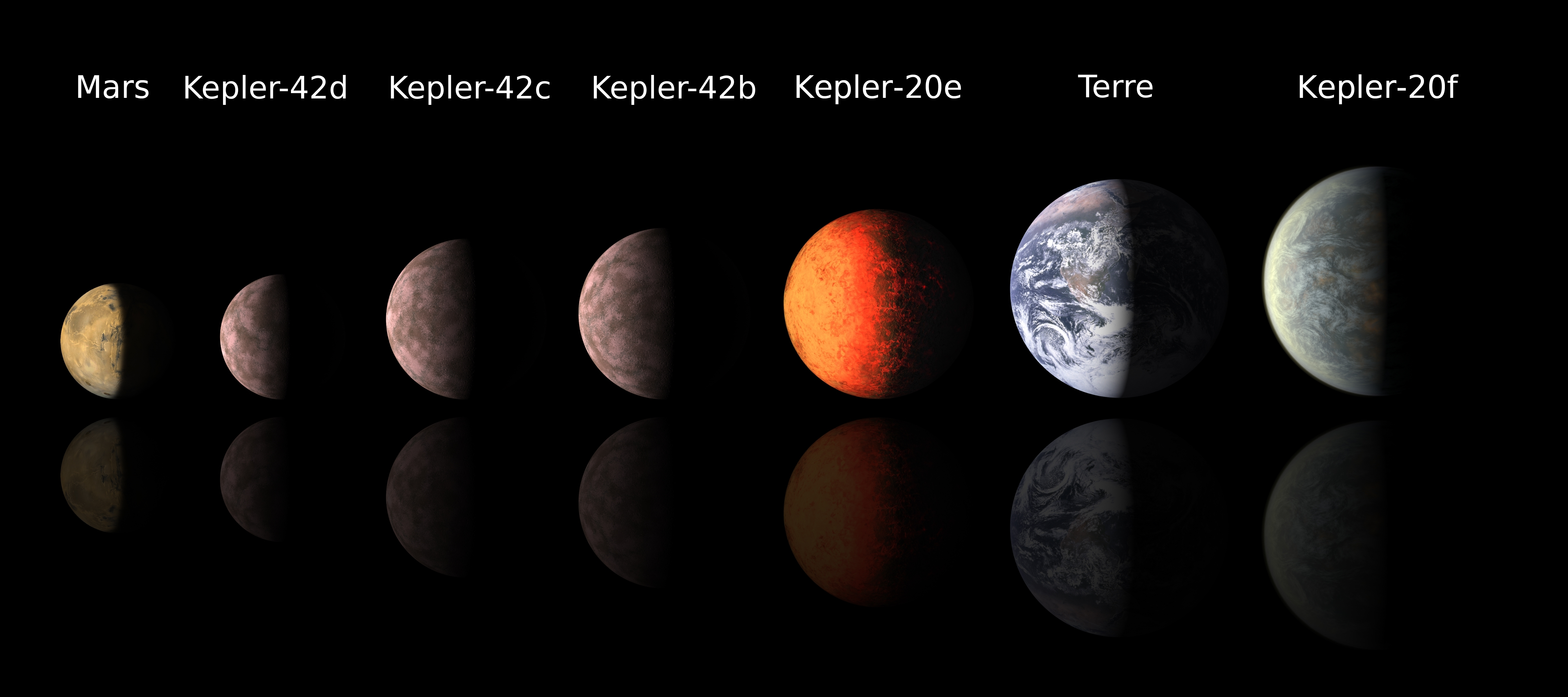 This chart compares the (at the time of their discovery) smallest known exoplanets, or planets orbiting outside the solar system, to our own planets Mars and Earth. Astronomers using data from NASA's Kepler mission and ground-based telescopes recently discovered the three smallest exoplanets known to circle another star, called Kepler-42b, Kepler-42c and Kepler-42d (formerly KOI-961.01, KOI-961.02 and KOI-961.03). The smallest of these, Kepler-42d, is about the size of Mars with a radius of only 0.57 times that of Earth. Not long ago, in Dec. of 2011, the Kepler team announced the discovery of Kepler-20e and Kepler-20f -- the first Earth-size planets ever found outside the solar system. All five of these small exoplanets have toasty orbits close to their stars, and do not lie in the more temperate habitable zone. The ground-based observations contributing to the Kepler-42 discoveries were made with the Palomar Observatory, near San Diego, California, and the W.M. Keck Observatory atop Mauna Kea in Hawaii. This file is a derivative work with the legend changed to French.